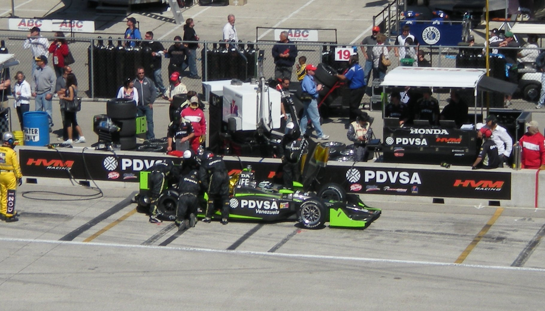 The HVM Racing crew of E. J. Viso repairing a gearbox problem at the Milwaukee Mile in 2009